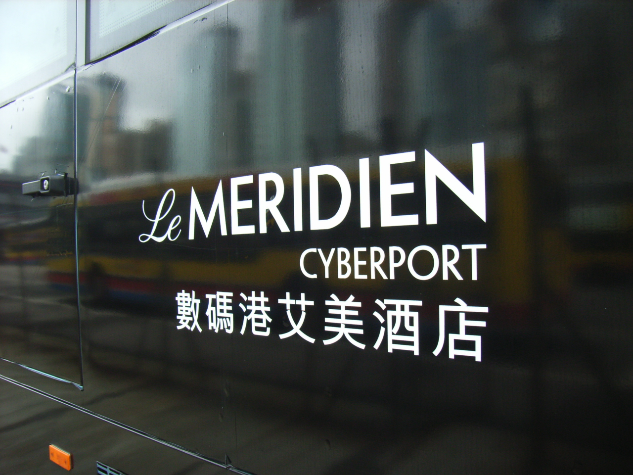 A Hong Kong hotel - Le Meridien Cyberport. (Created by User:Busawen).